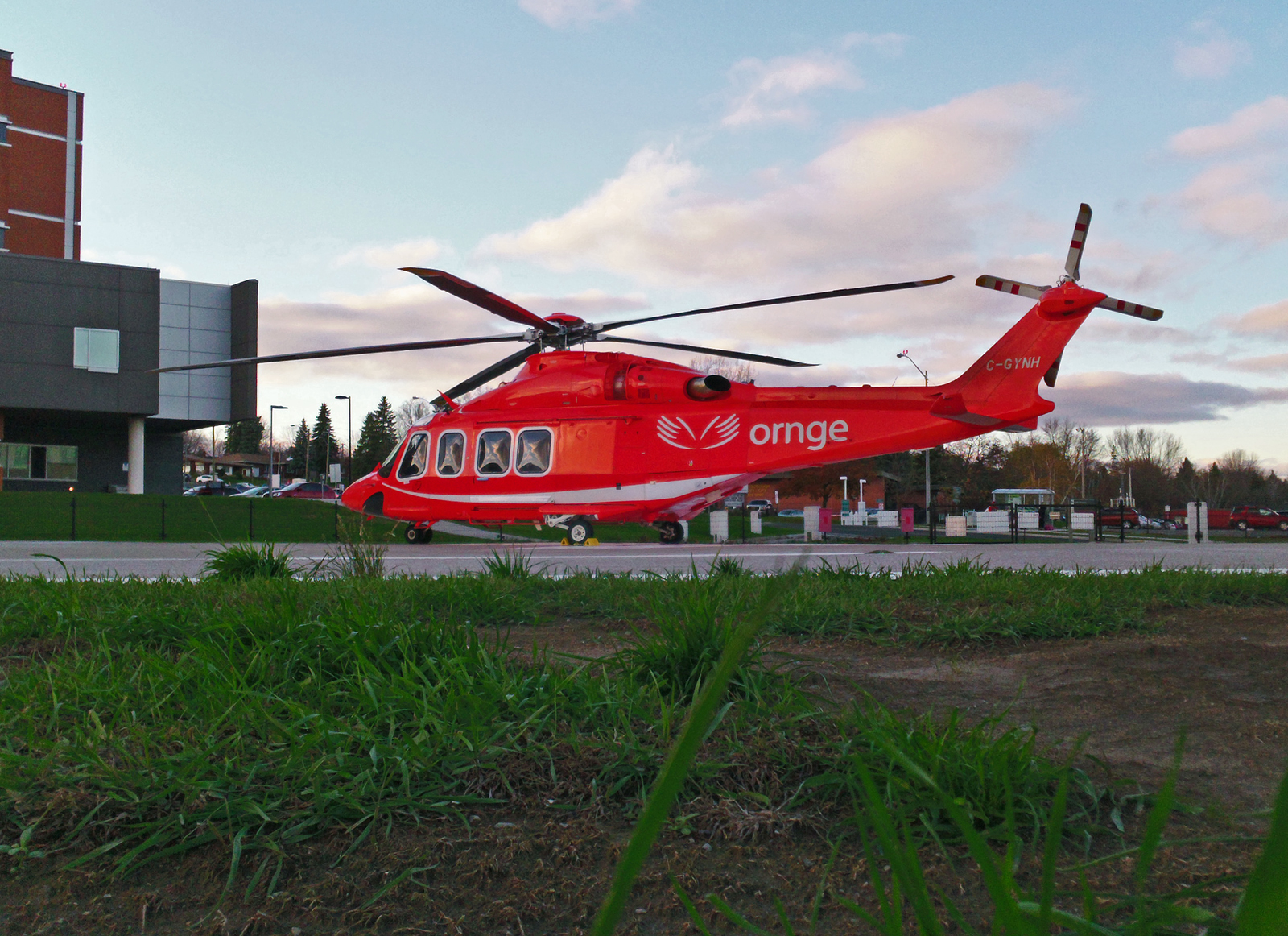 An AgustaWestland AW-139 EMS helicopter waiting at Peterborough Regional Health Centre in Peterborough, Ontario, Canada.